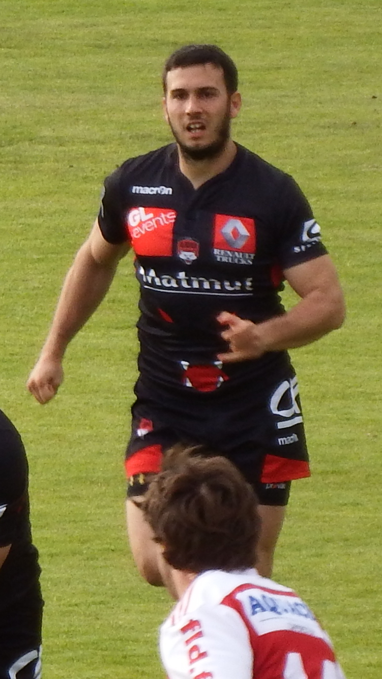 2013–14 Rugby Pro D2 season — 12 April 2014, Stade Maurice Boyau. Match between: US Dax — Lyon OU